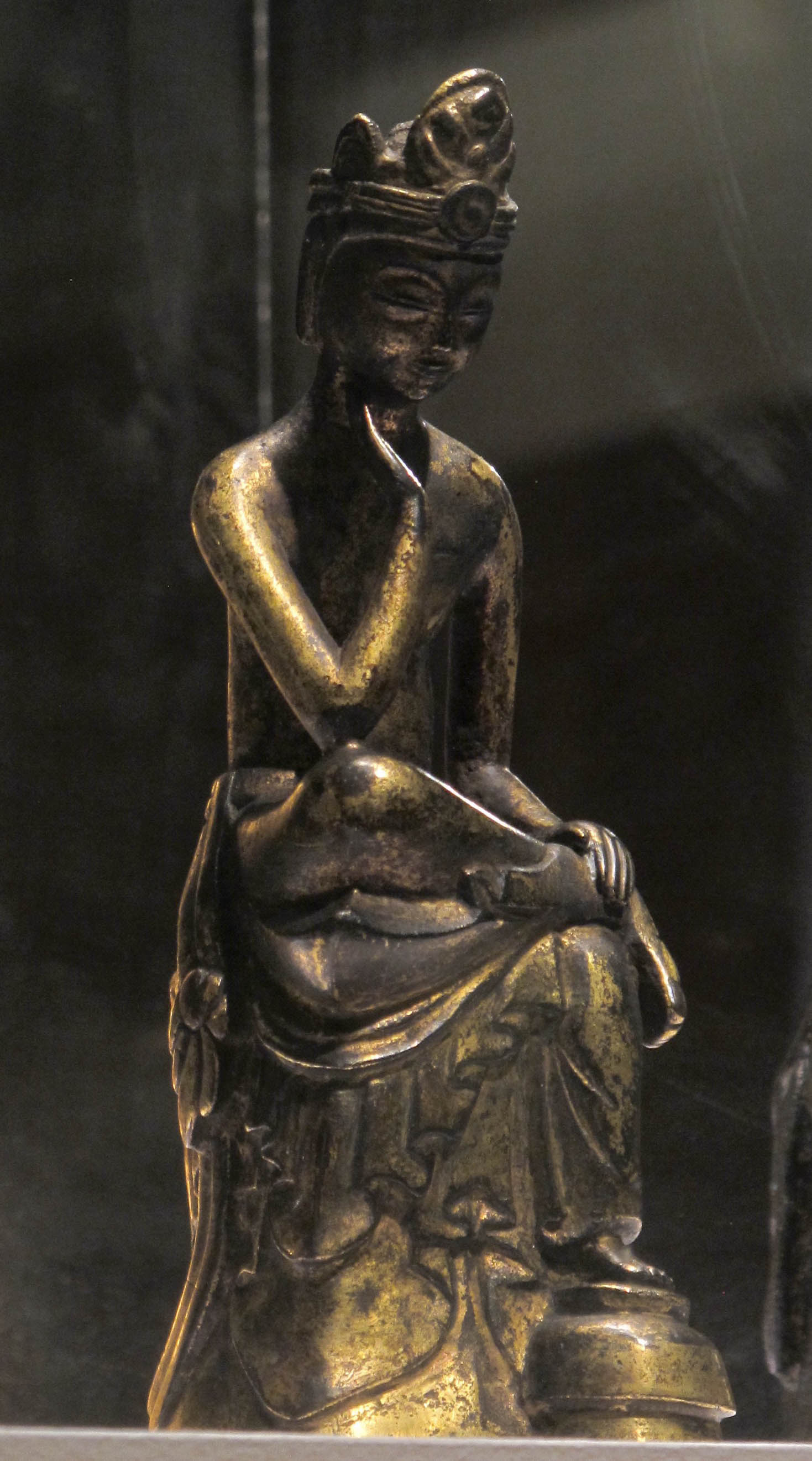 Meditating Bodhisattva (panga sayu sang). Three Kingdoms Period, Baekje Kingdom 6 th c.. Gilt bronze, H. 15,5 x L 5,5 cm.